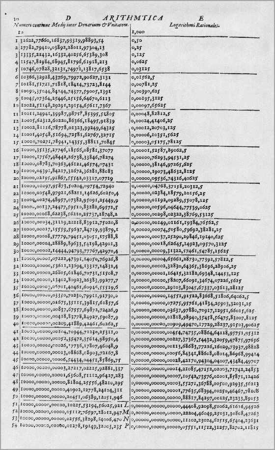 Roots of 10 from Arithmetica Logarithmica by Henry Briggs, 1624